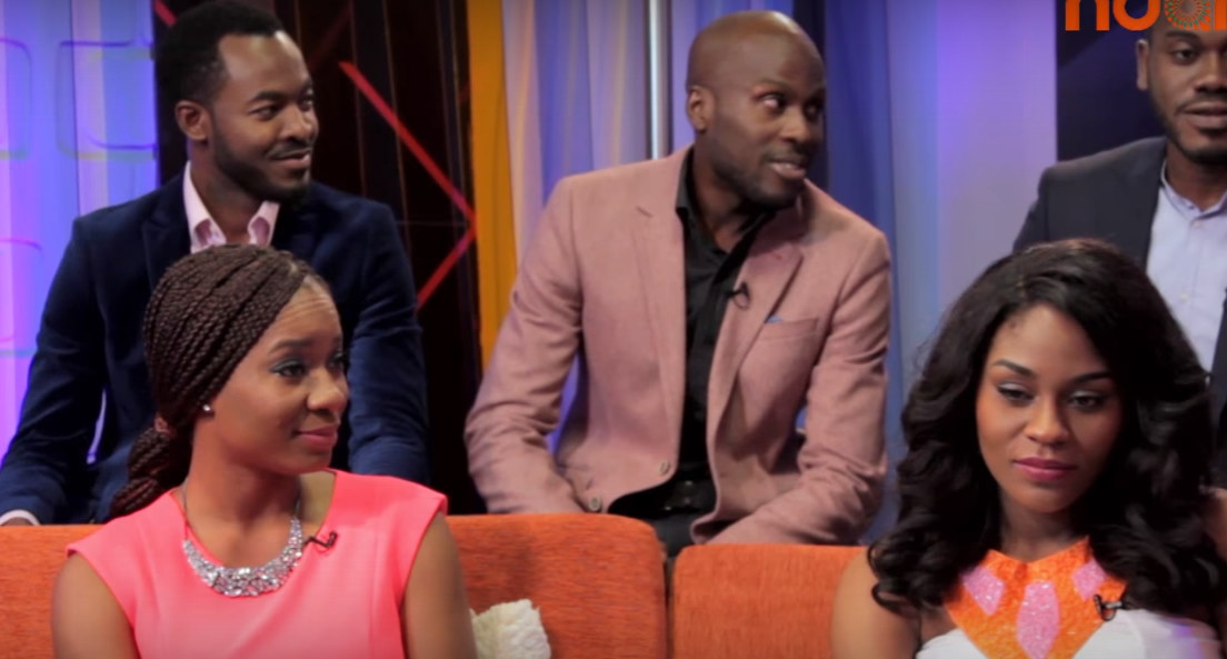 Gidi Up cast are OC Ukeje, Titilope Sonuga, Deyemi Okanlawon, Somkele Iyamah and Ikechukwu Onunaku here on The Juice on Ndanitv